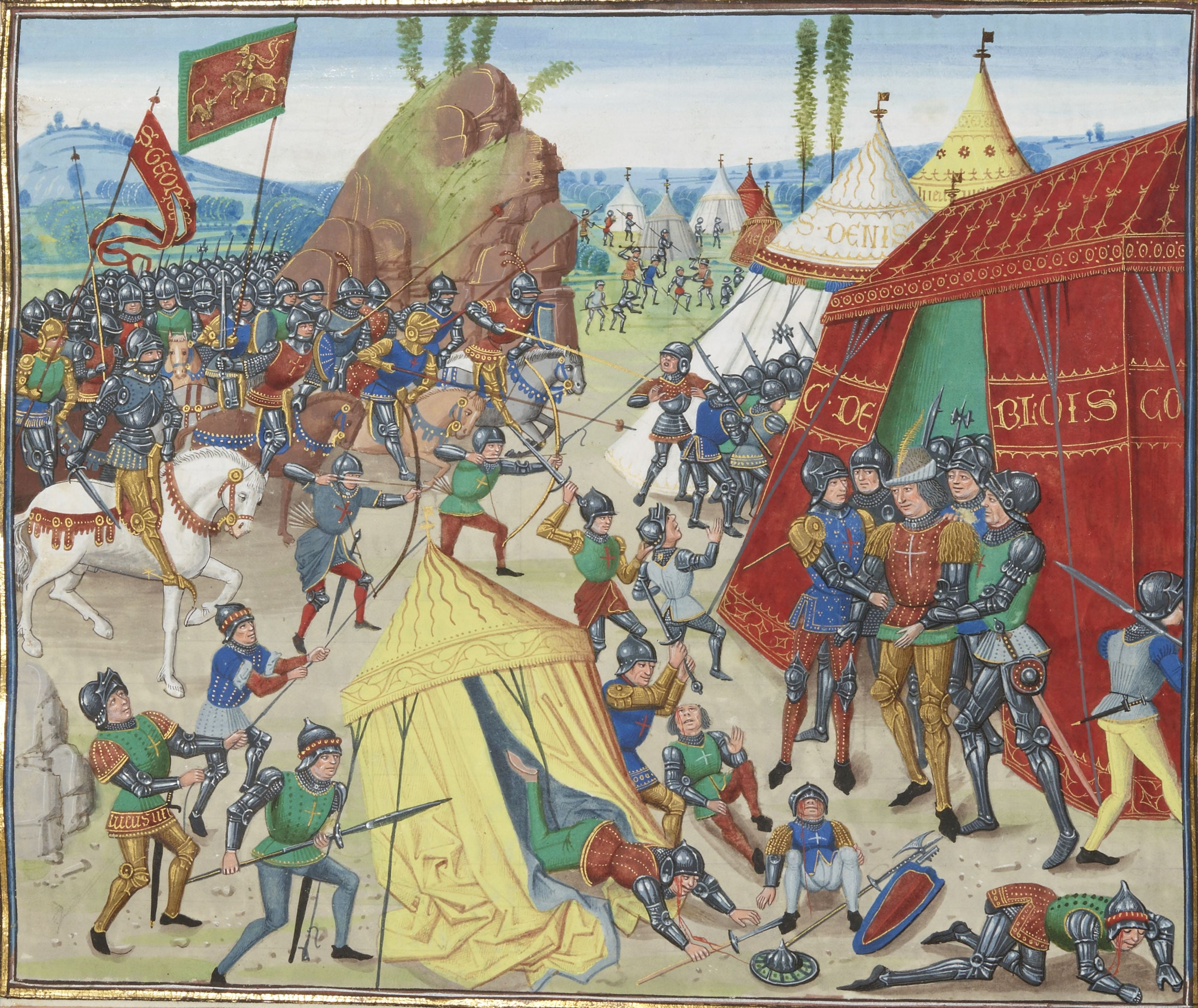 Charles de Blois, duke of Brittany is made prisoner after the battle of Roche Derrien in 1347.